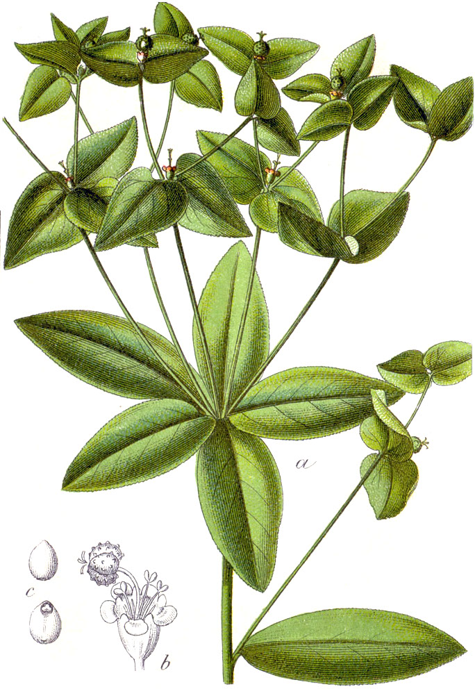 Euphorbia dulcis L. Original Caption Süsse Wolfsmilch, Euphorbia dulcis